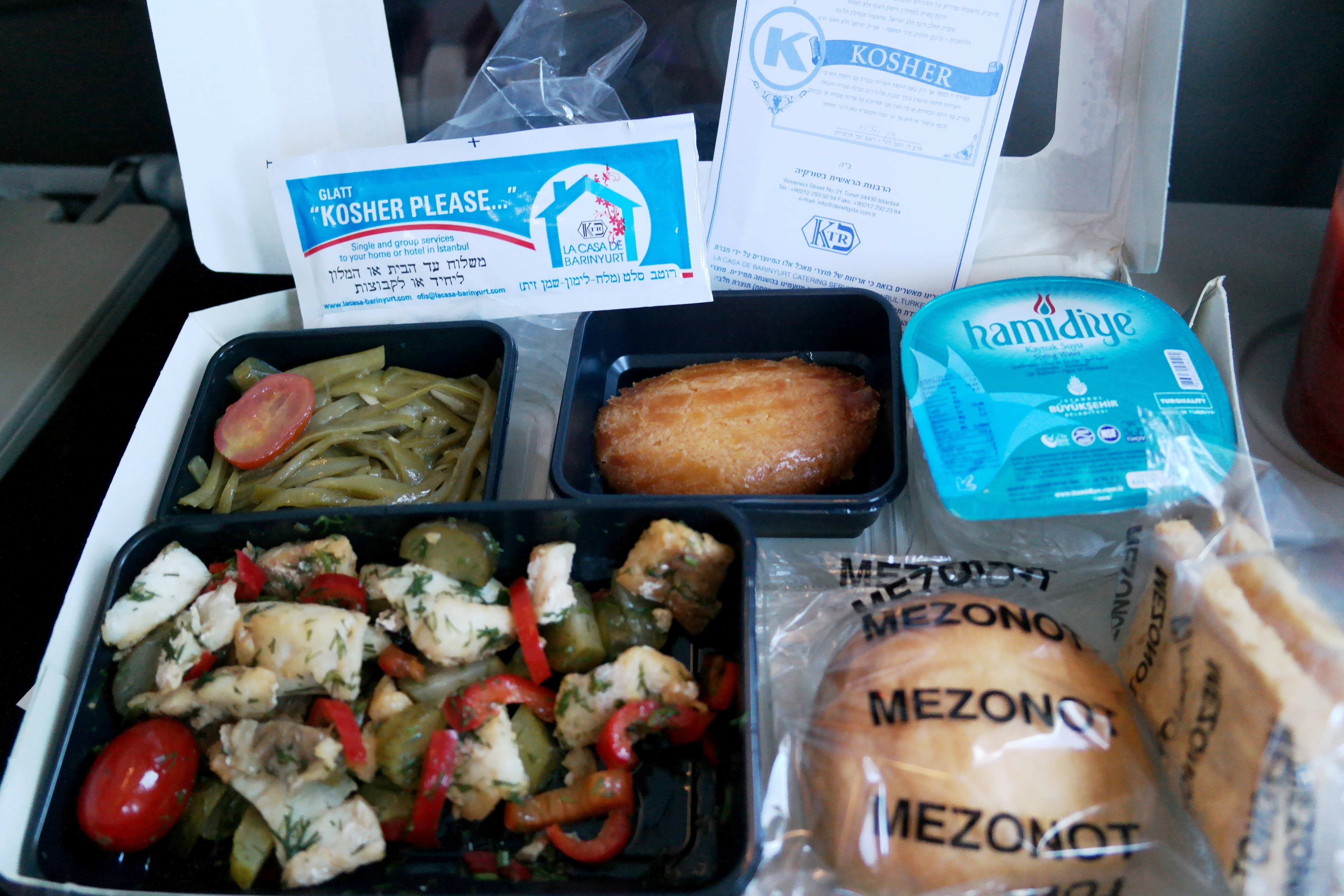 Kosher meal on board of Turkish Airlines TK791 from Tel Aviv to Istanbul-Atatürk. Certified kosher by the Chief Rabbinate of Turkey.